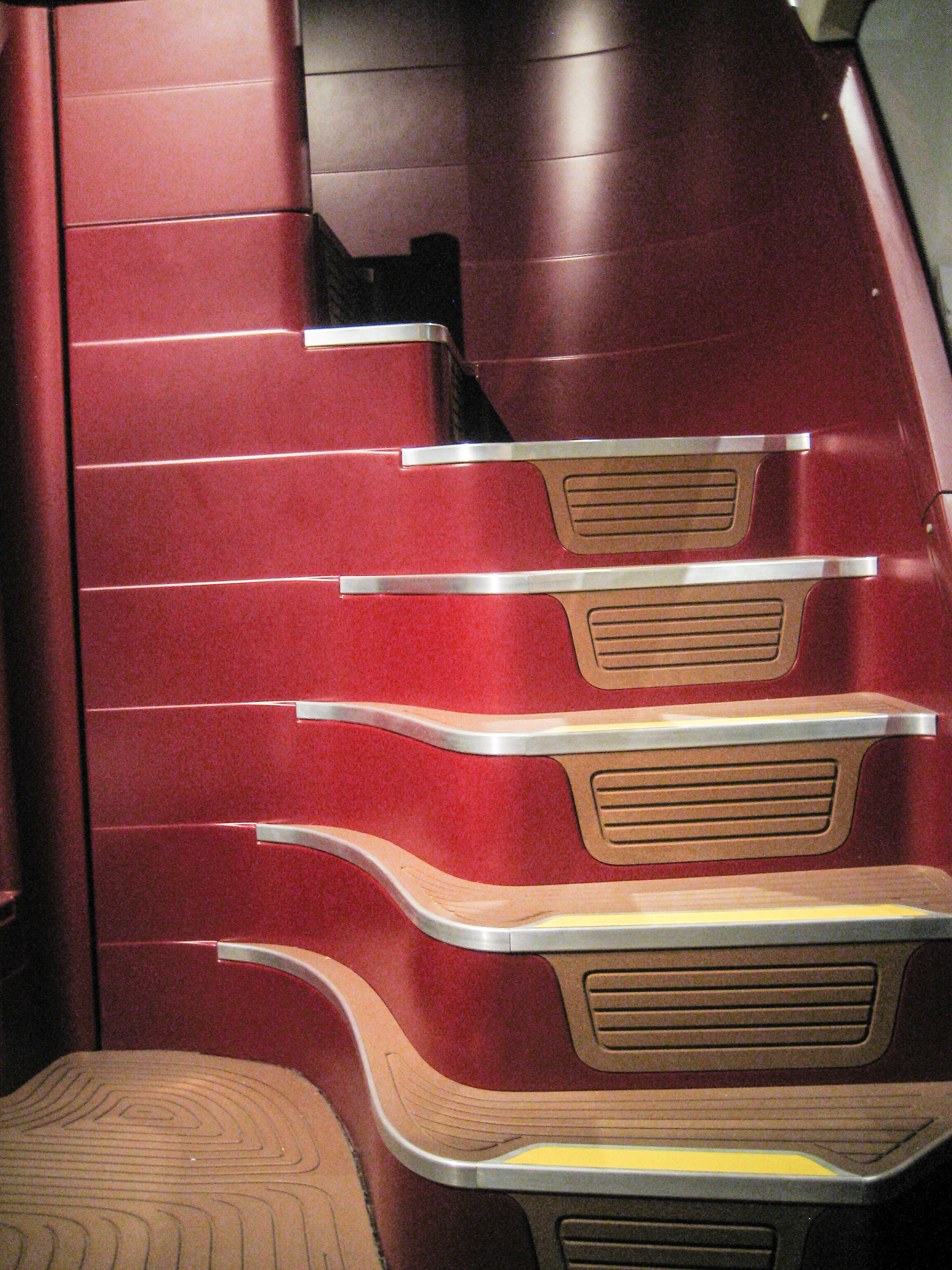 New Routemaster Bus rear staircase